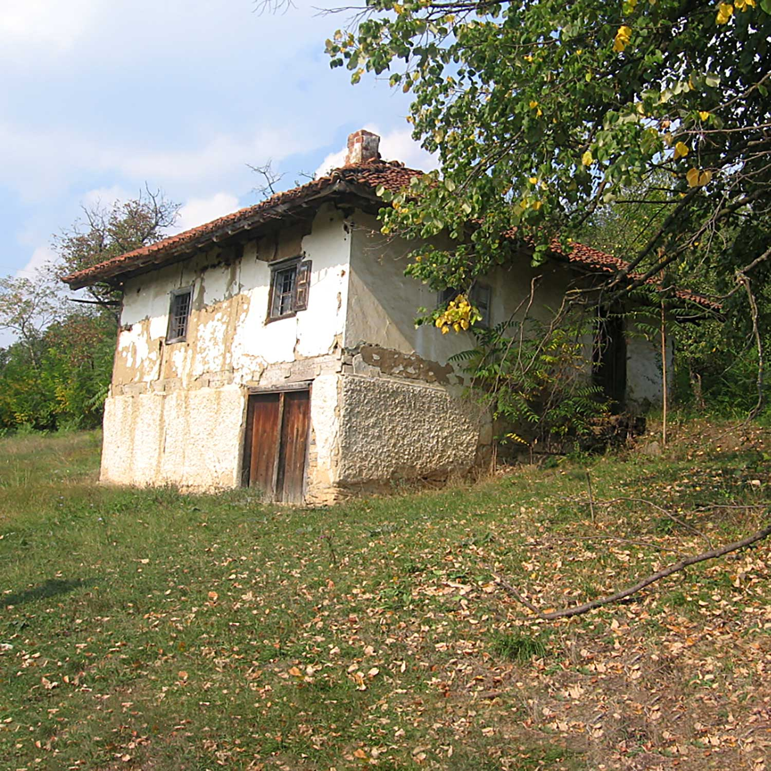 Old house of Radomir Lazović in Toponica, Knić